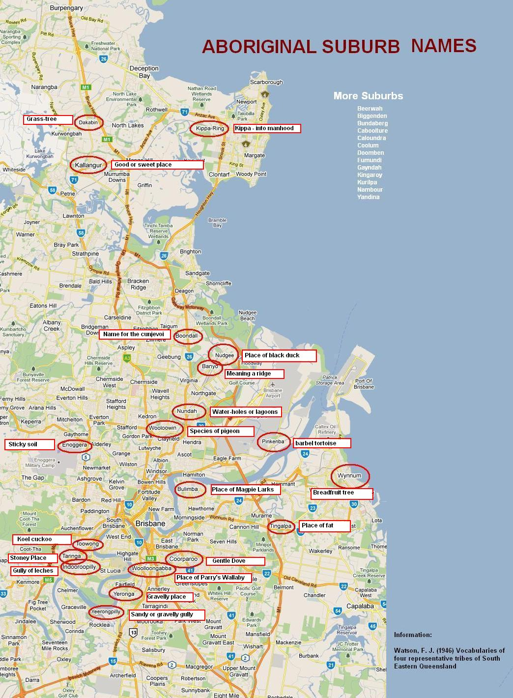 Image showing the aborignial names with the Suburb of Brisbane